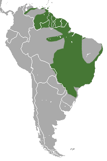 Bare-tailed Woolly Opossum (Caluromys philander) range